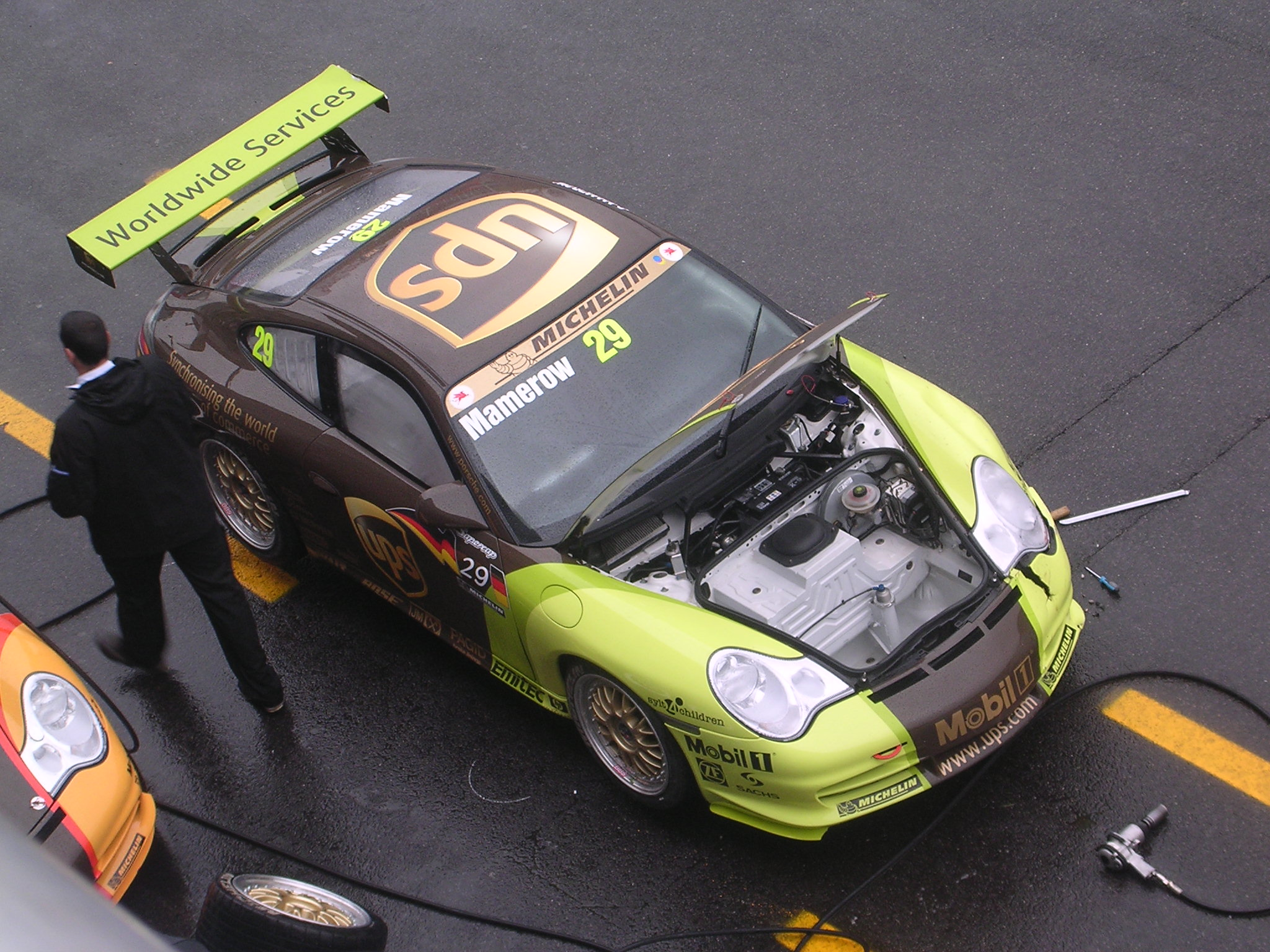 The Autrodomo Nazionale of Monza (italy) during a race in september 2004